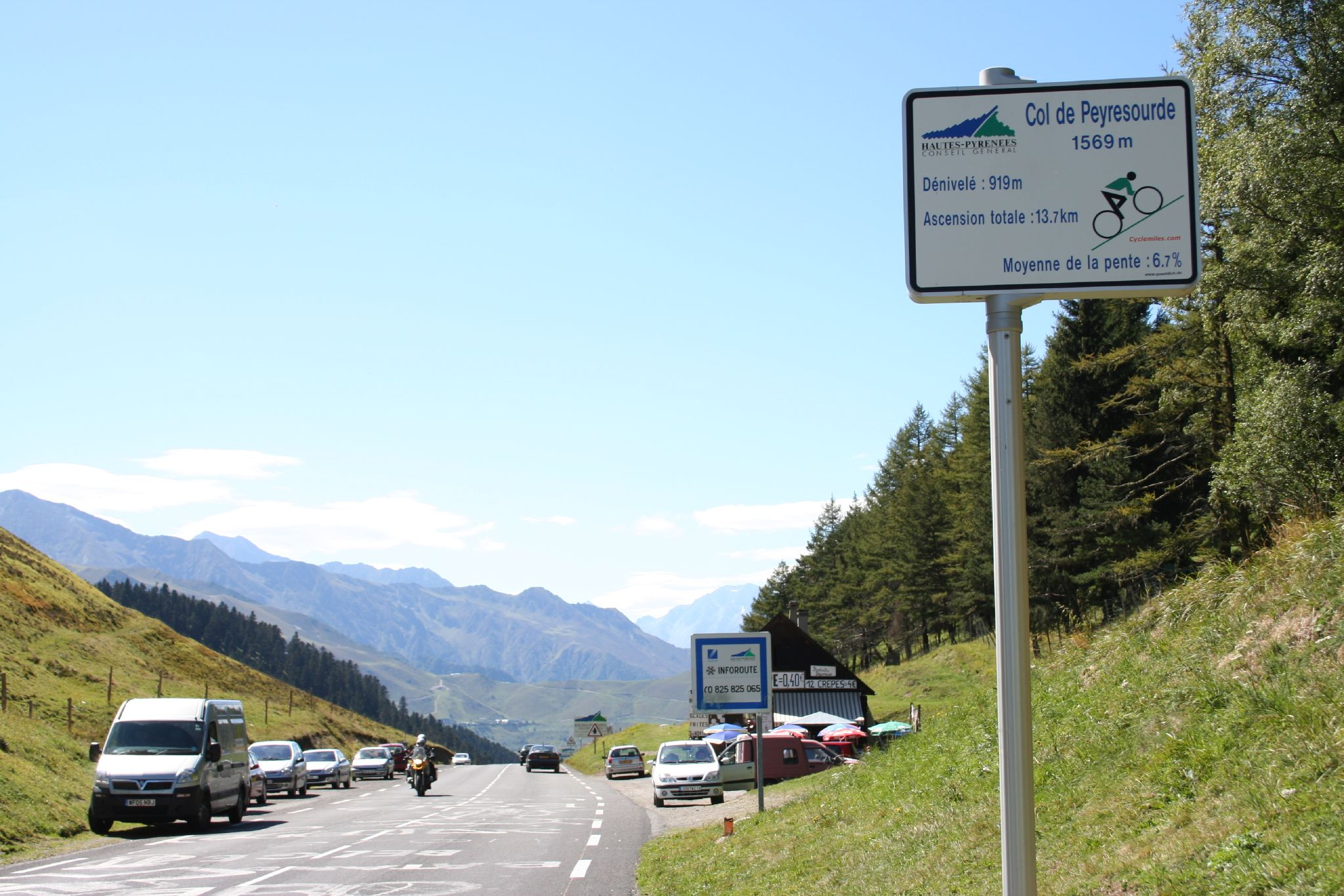 The col, but no snacks.